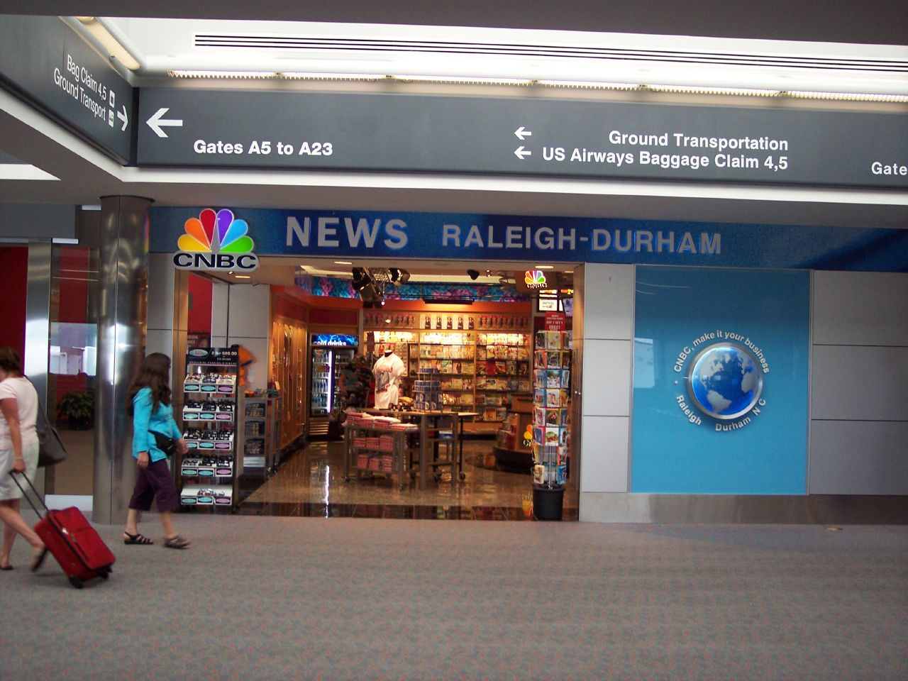 CNBC News Store, Raleigh-DurhamCNBC Store